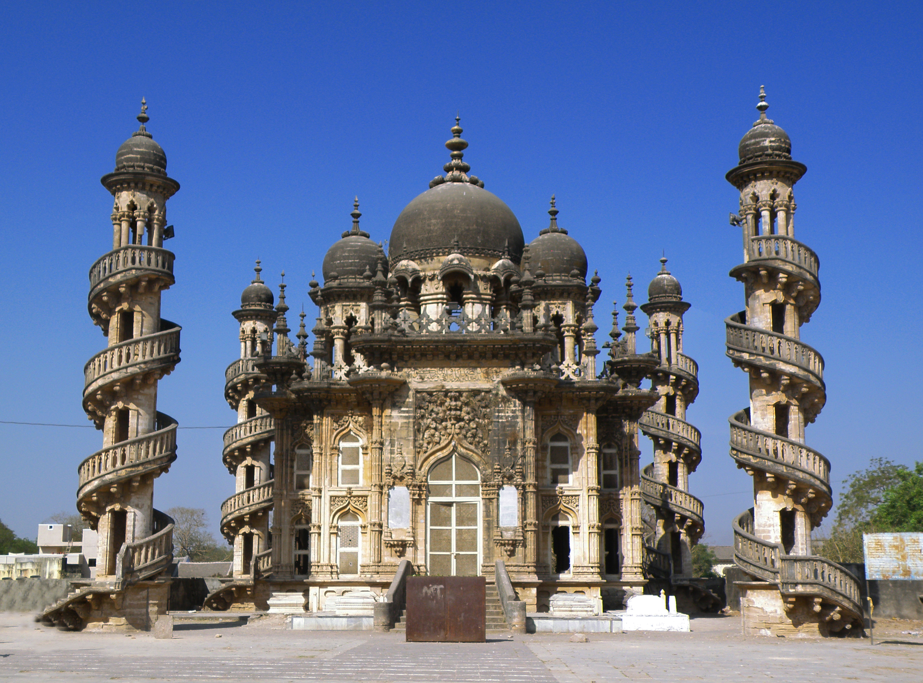 Bahauddin Makbara, mausoleum of 'Bahaduddinbhai Hasainbhai', the Wazir of Junagadh (1890s), in Junagadh.